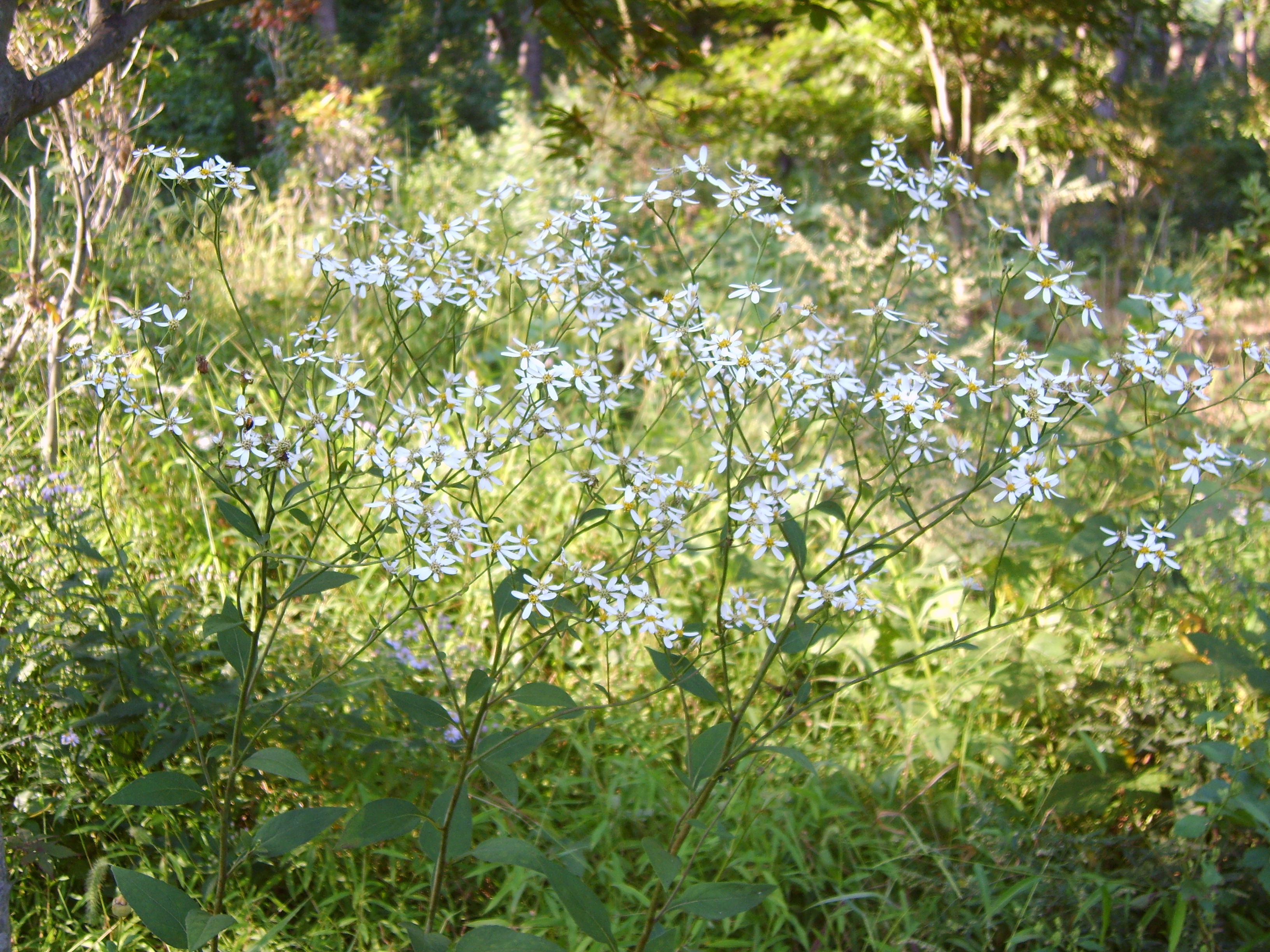 Aster scaber in Jeondeungsa, Korea